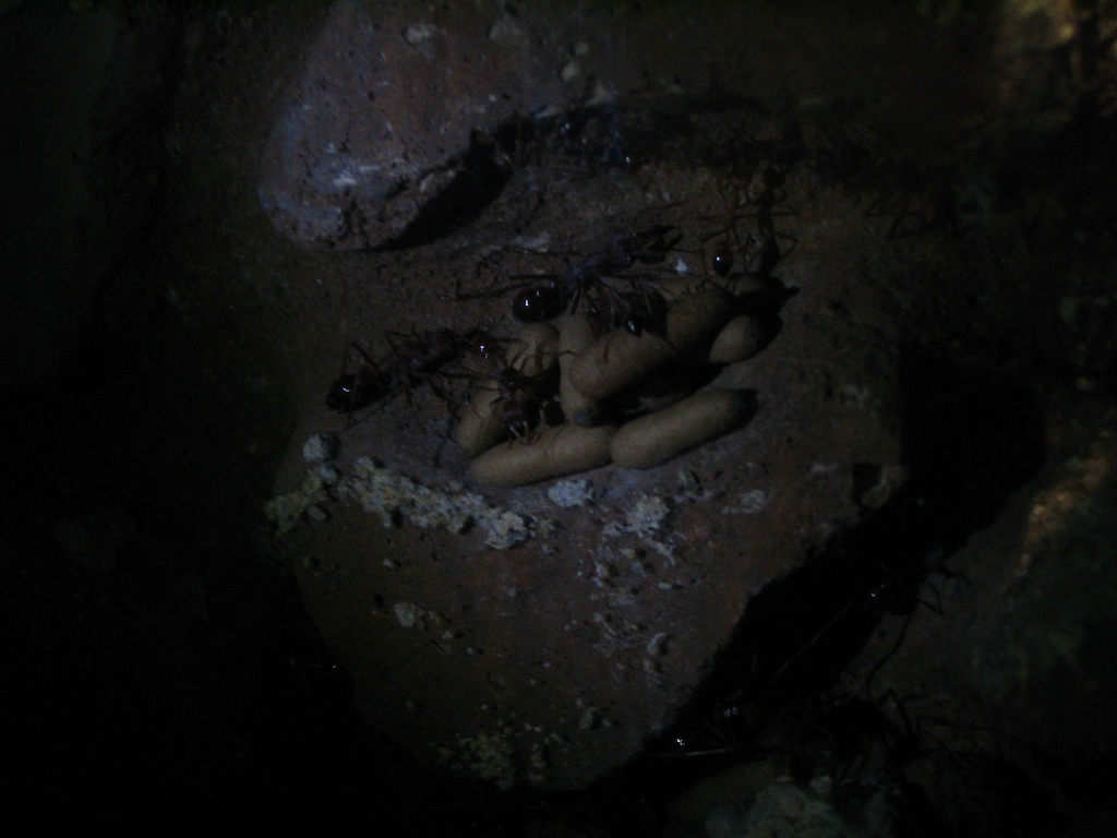 Red Bull Ants in dark at Sydney Wildlife World